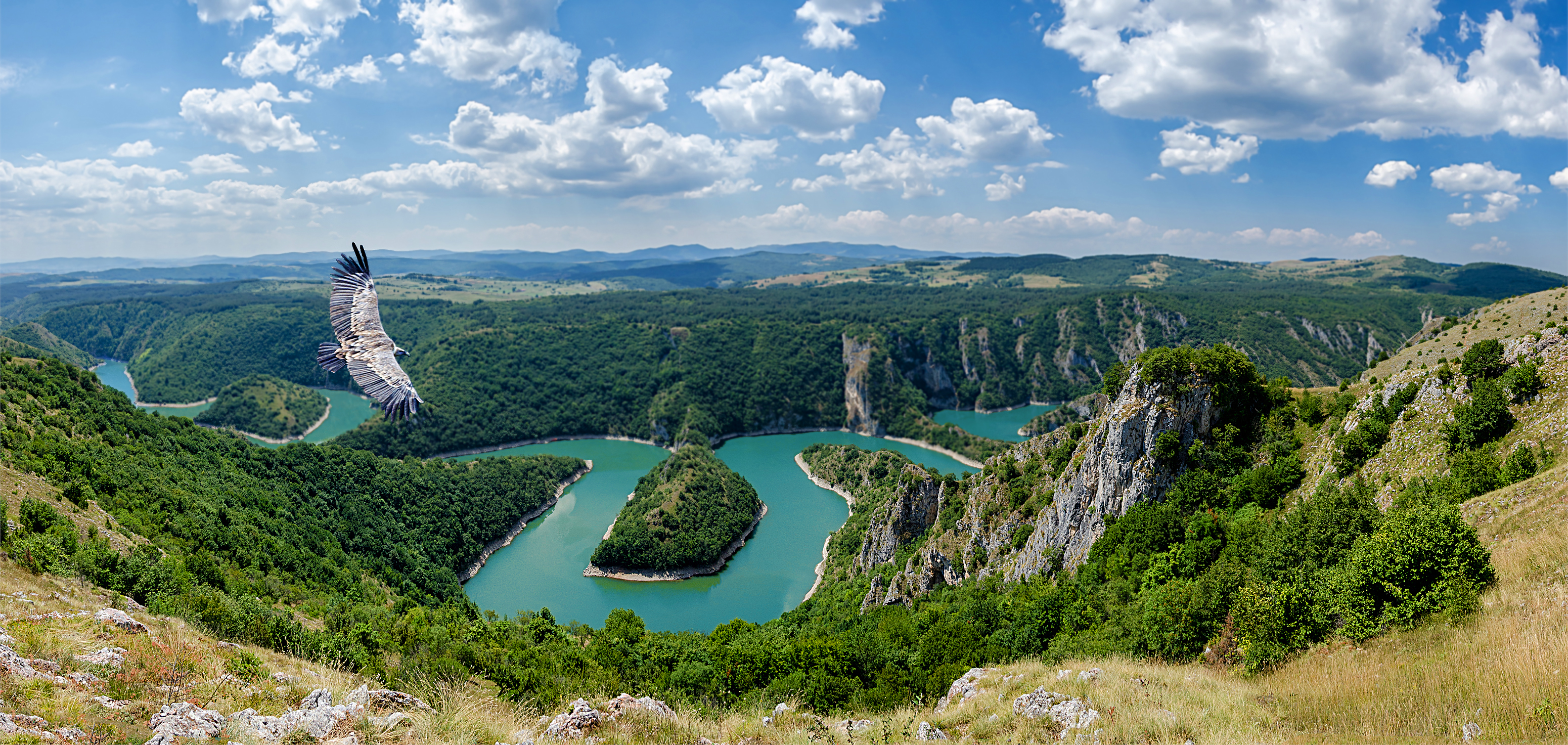 Ово је фотографија заштићеног природног добра у Србији под шифром: РП43This is a a photo of a natural area in Serbia with ID: РП43 Uvac River from the boat perpective. The Uvac is an international trans-boundary river, rising under Golija mountain and Pešter plateau, then flowing through southwestern Serbia and cross into eastern Bosnia and Herzegovina where, after 119 km, finally meets the Lim river from the right, however, before it empties into the Lim, for a 10 kilometers Uvac forms the border between two countries. Also, while meandering through Serbia, Uvac loosely makes the northern border of the Raška region too.